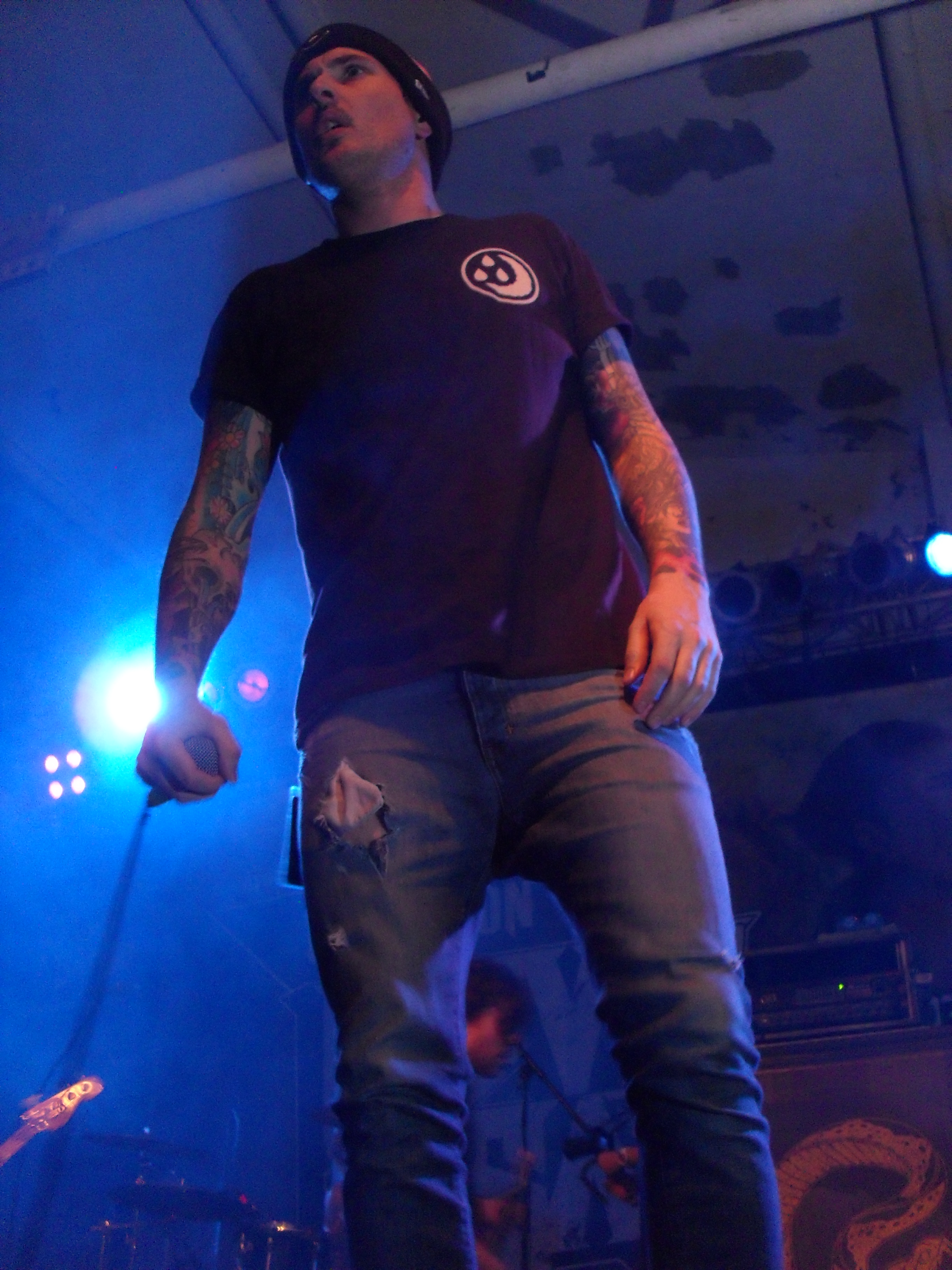 Jamie Hope performing at Impericon Never Say Die! Tour 2013 at Essigfabrik in Cologne.